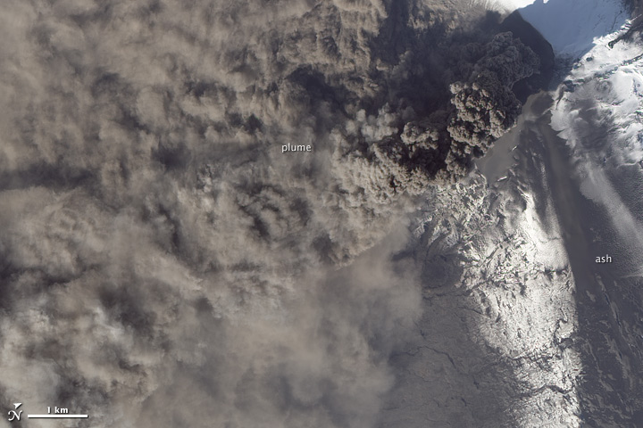 This high-resolution view of the plume was captured by the Advanced Land Imager (ALI) on NASA’s Earth Observing-1 (EO-1) satellite.